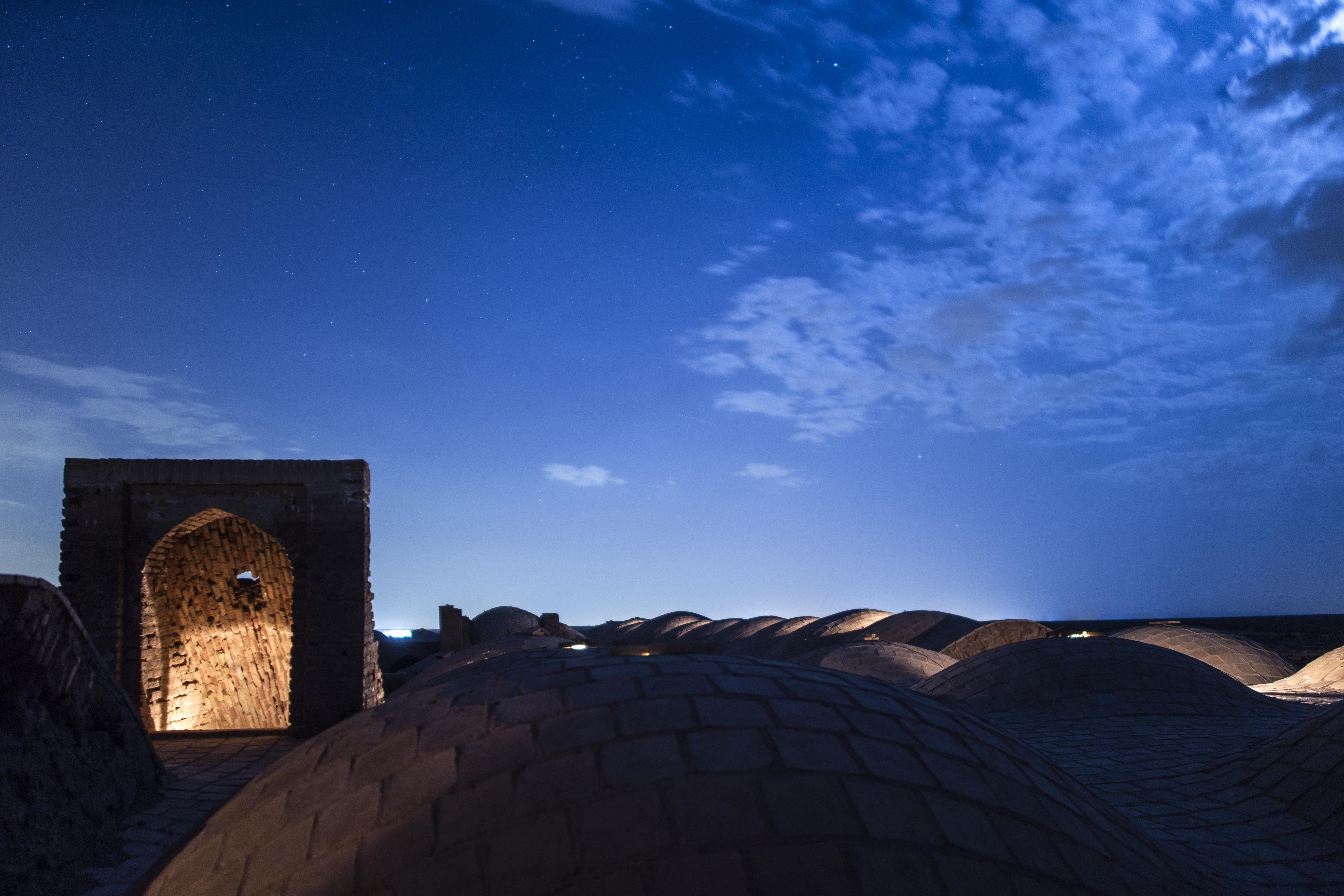 Deir-e Gachin Caravansarai is one of the greatest caravansarais of Iran which is located in the center of Kavir National Park. Its unique qualities is the reason it is called “Mother of Iranian Caravansarais”. It is located in the Central District of Qom County, 80 kilometers north-east of Qom (60 kilometers into Garmsar Freeway) and 35 kilometers south-west of Varamin. (Photo by: Mostafa Meraji, wiki loves monuments 2018)